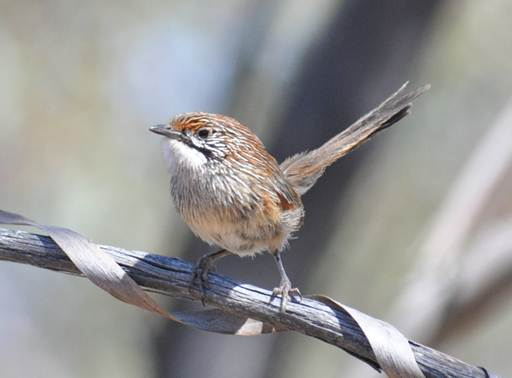 Photo of a Striated Grasswren, taken at Scotia Station NSW.